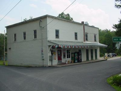 Cox's Store is a former general store and post office on Rock Oak Road (County Route 10/6) at its intersection with Grassy Lick Road (County Route 10) in Kirby, West Virginia, United States.